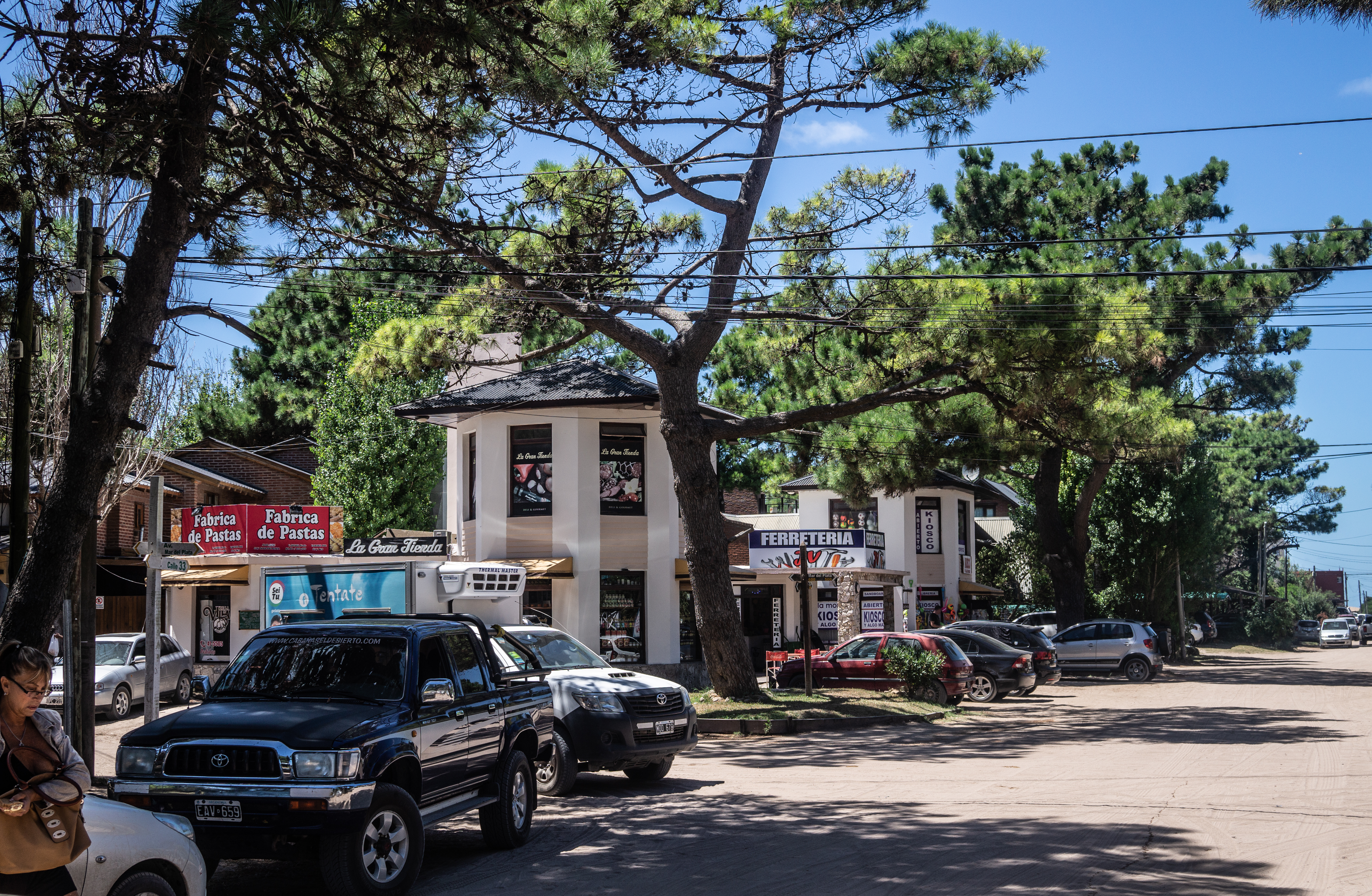 Comercial street in Mar Azul, Argentina